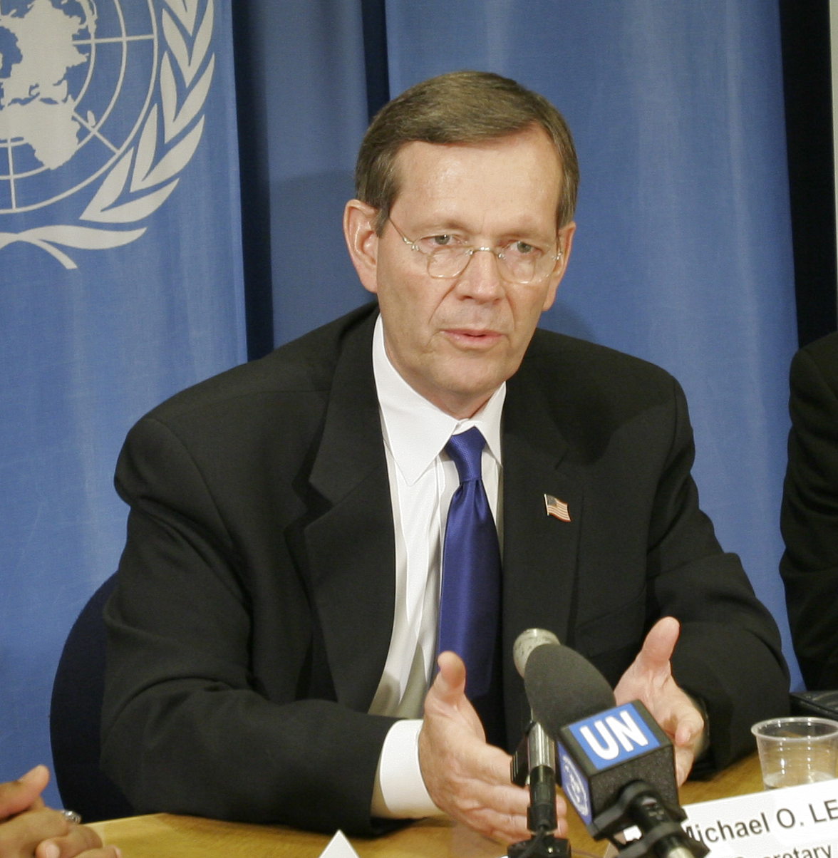 Michael O. Leavitt, U.S. Secretary of Health and Human Services, speaking with the press in 2007 at the United Nations Office at Geneva.